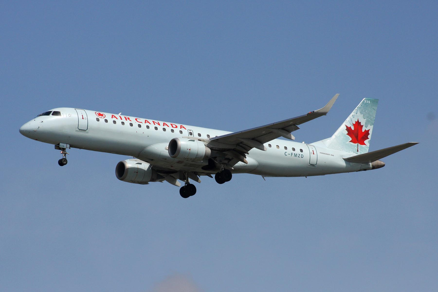 A picture of an airplane (name of it is on the file name).